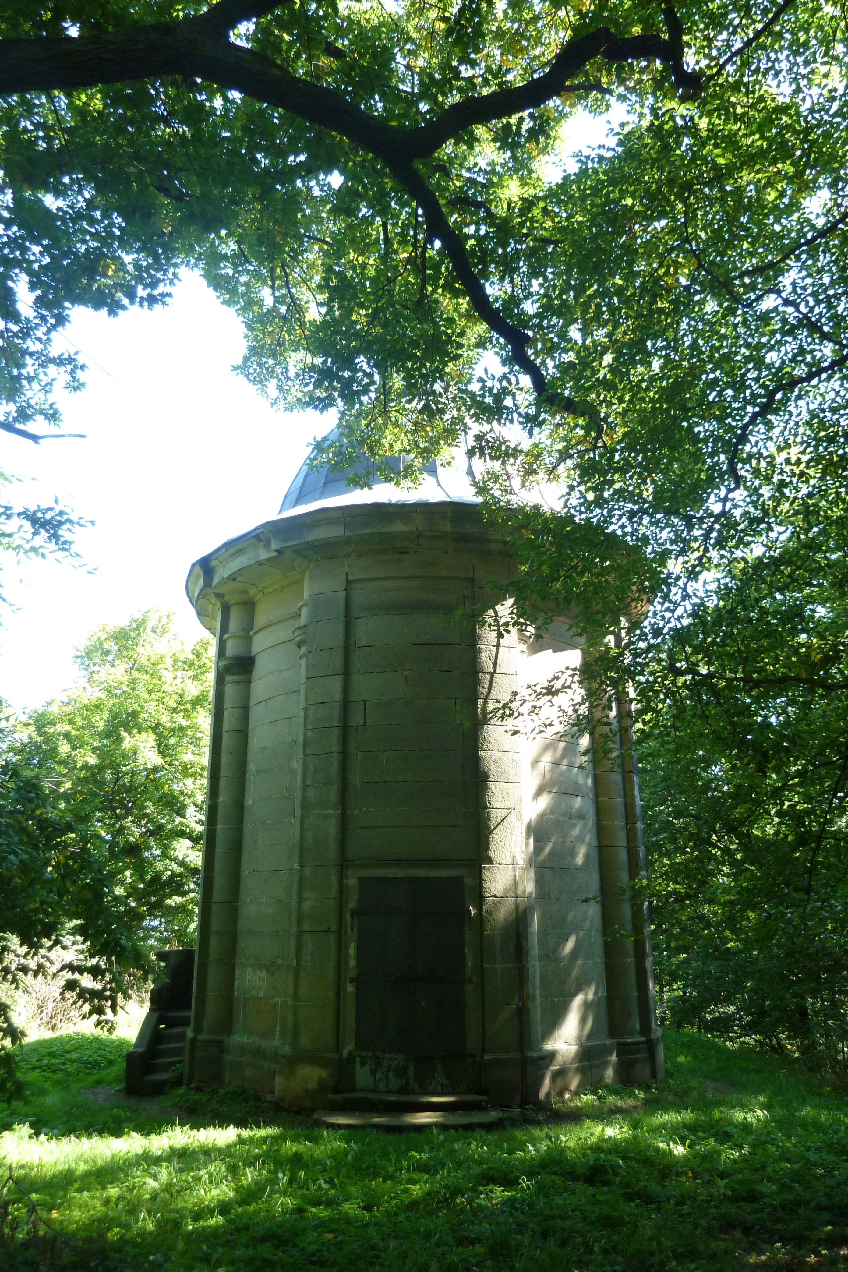 Svata Anna (st. Anna) near Jicin, Czech Republic